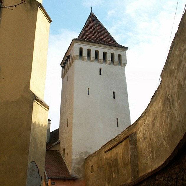 Saint Margaret Church, Mediaş